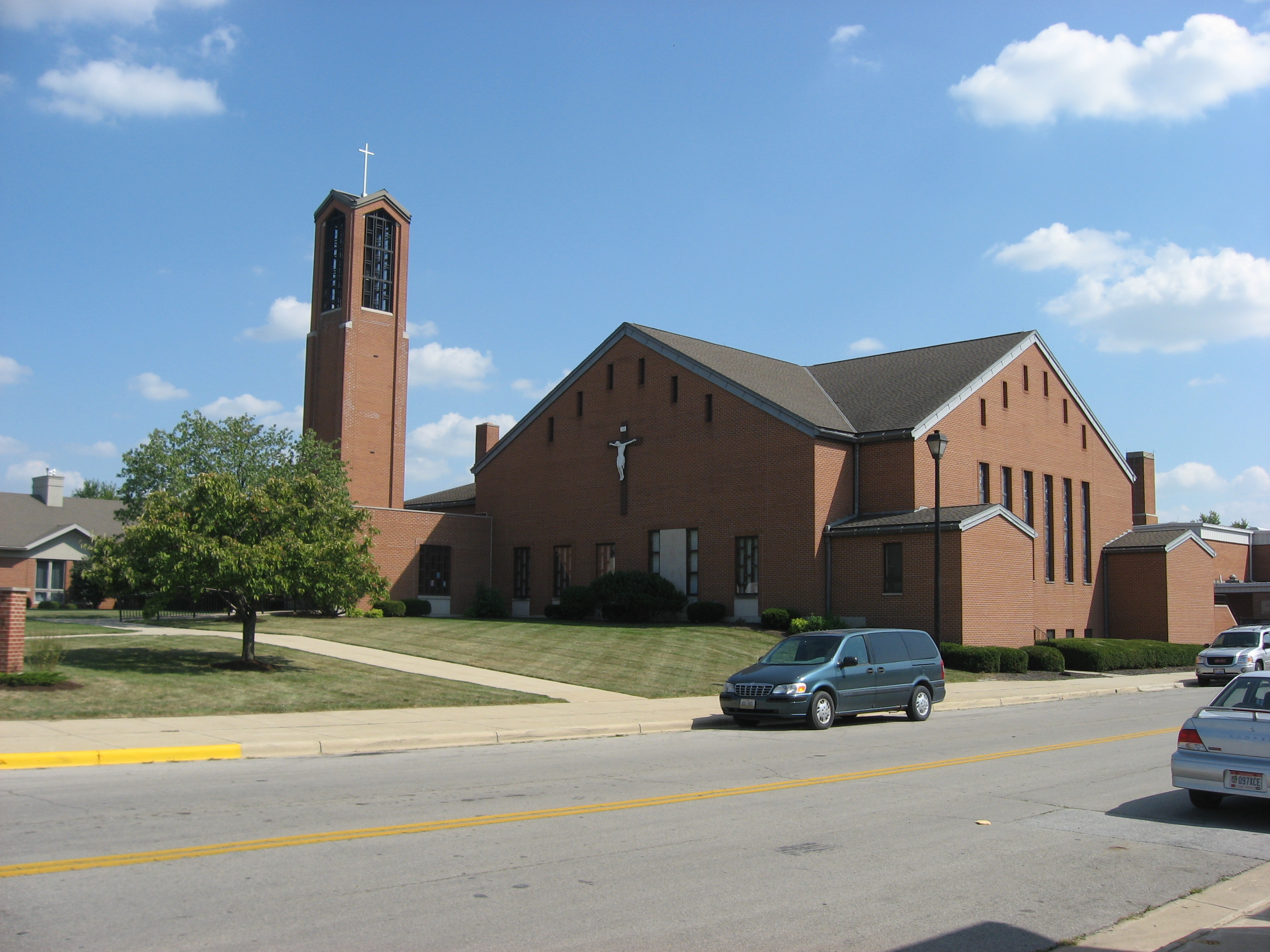 Front of Holy Rosary Catholic Church, located at 511 E. Spring Street (State Route 29) in St. Marys, Ohio, United States. The modern church (built in 1979) sits on the site of an 1867 church that was listed on the National Register of Historic Places as a part of the Cross-Tipped Churches of Ohio Thematic Resources. Although the old church has been destroyed, the site remains listed on the Register.